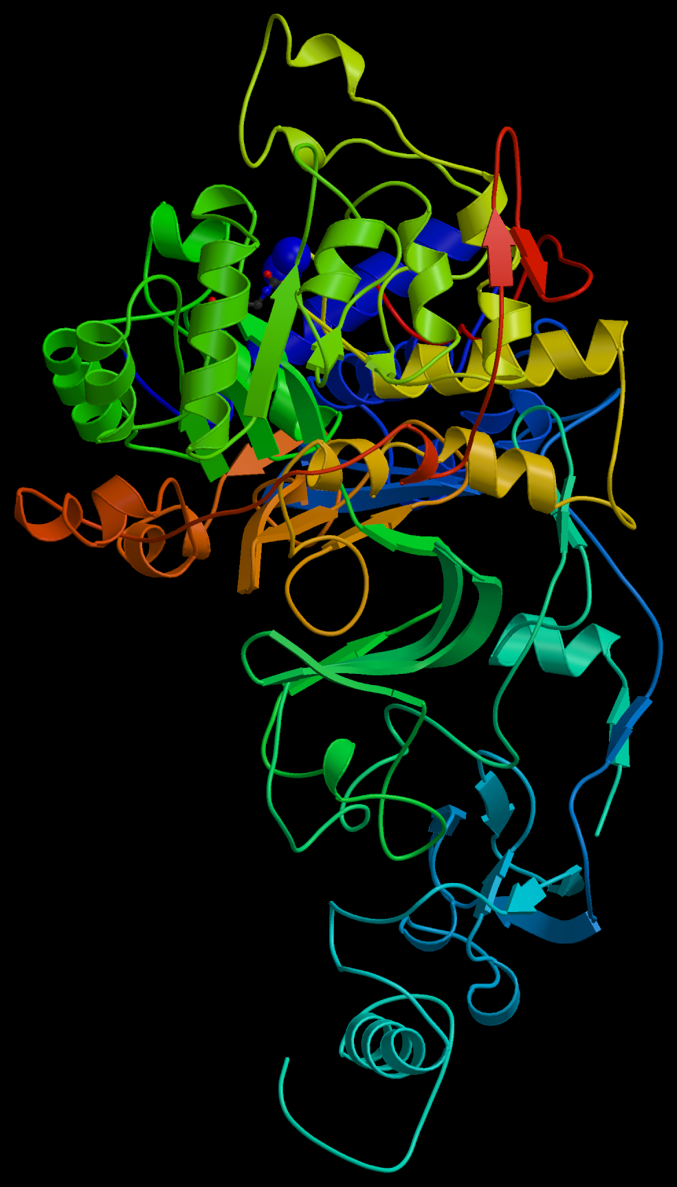 Molecular model of the enzyme Helicobacter Pylori Urease.